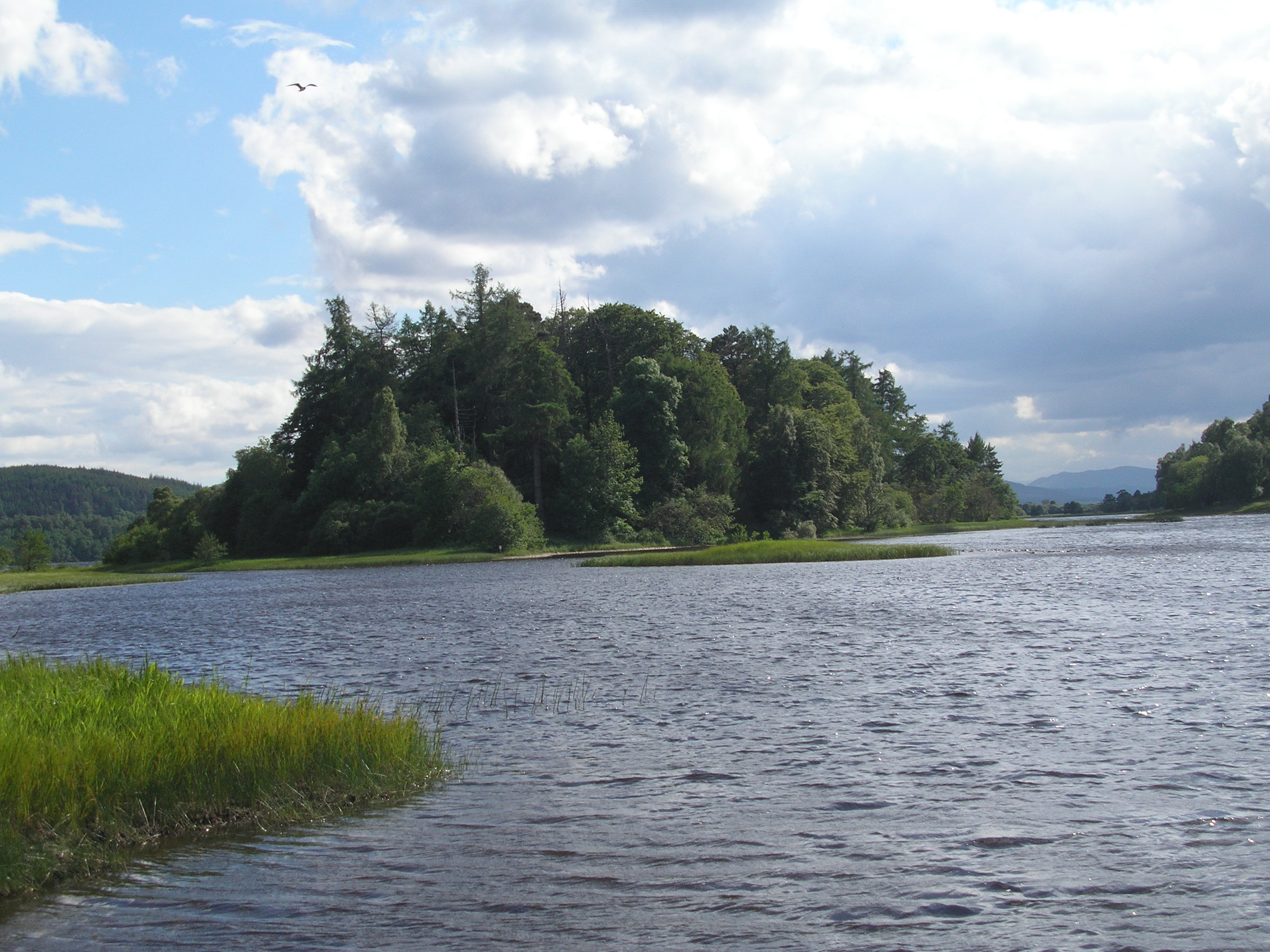 Tom Dubh island at the edge of Loch Insh, Speyside, Scotland